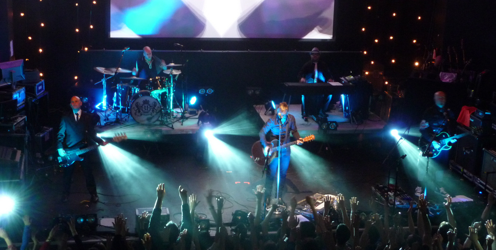 Delirious? in concert at the HMV Picture House in Edinburgh